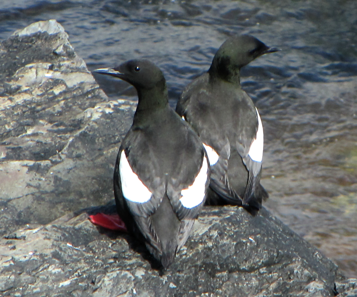 Black Guillemots (Cepphus grylle), Elliston, Newfoundland and Labrador